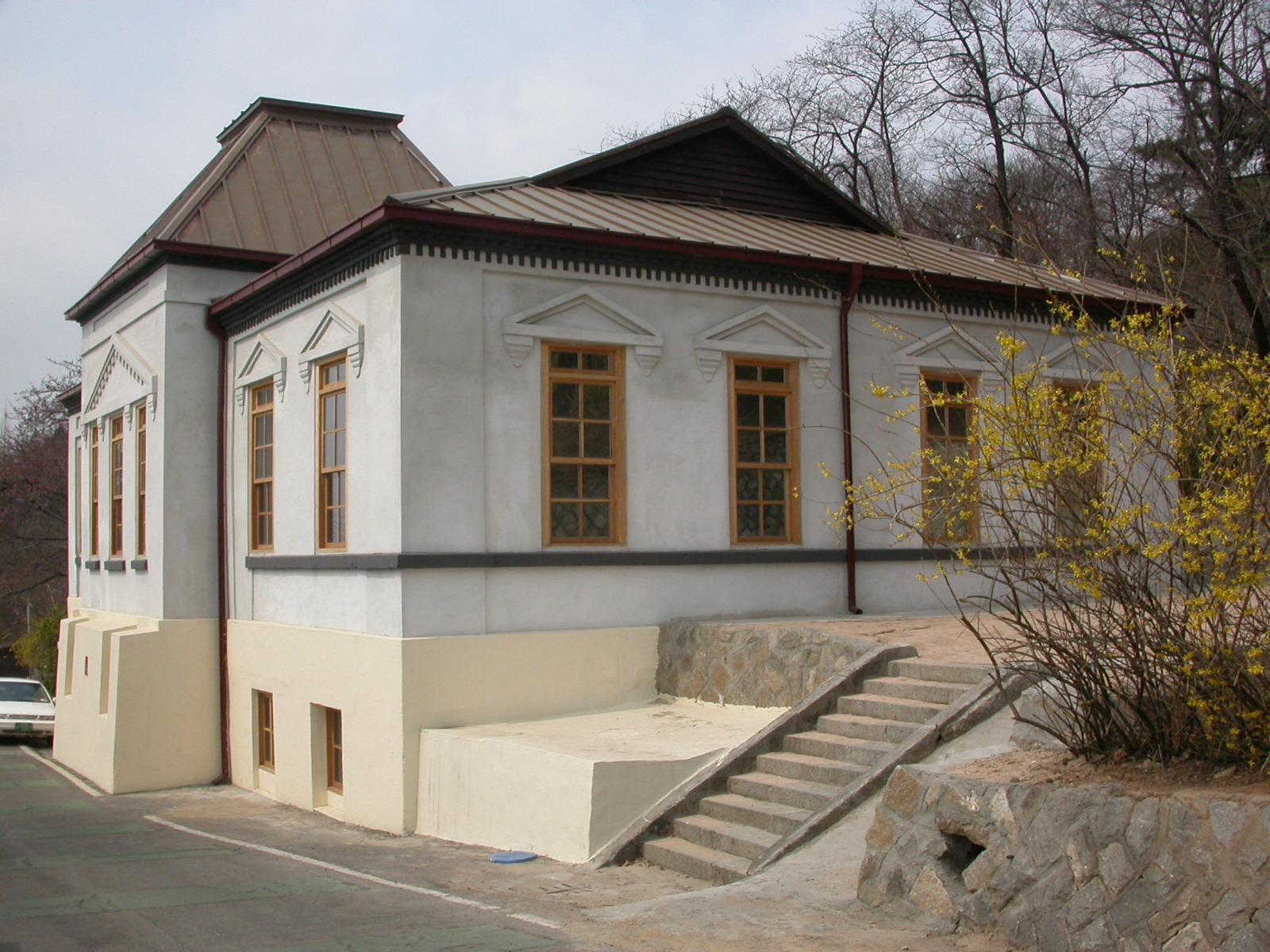 Former Jemulpo Club